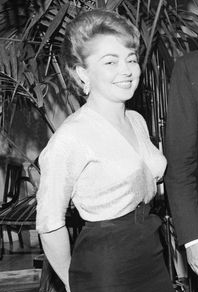 Dr. Mathilde Krim, at her residence in New York City